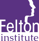 Logo after Family Service Agency of San Francisco changed their name to Felton Institute